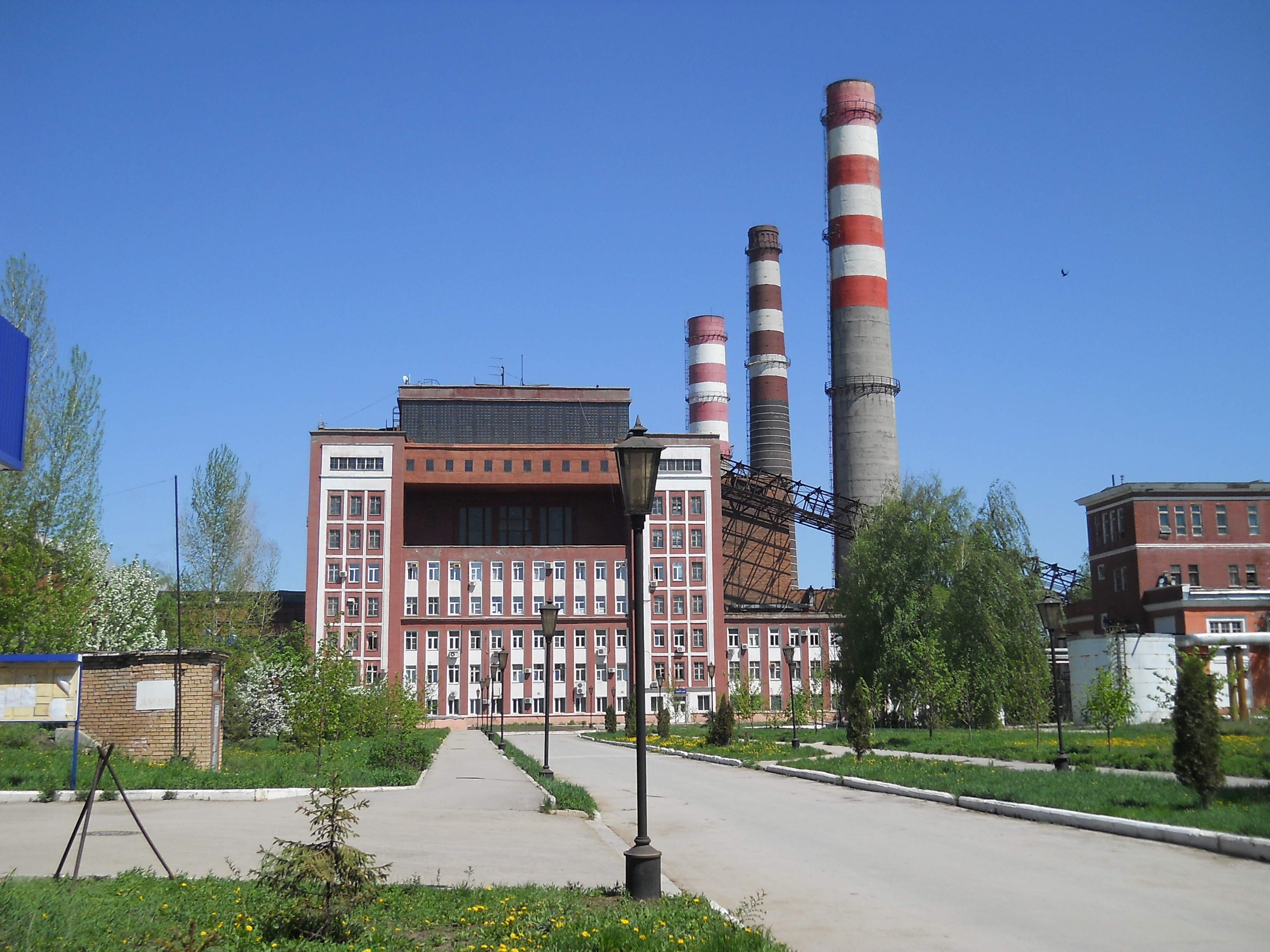 Samara, Bezimanskaia CHP